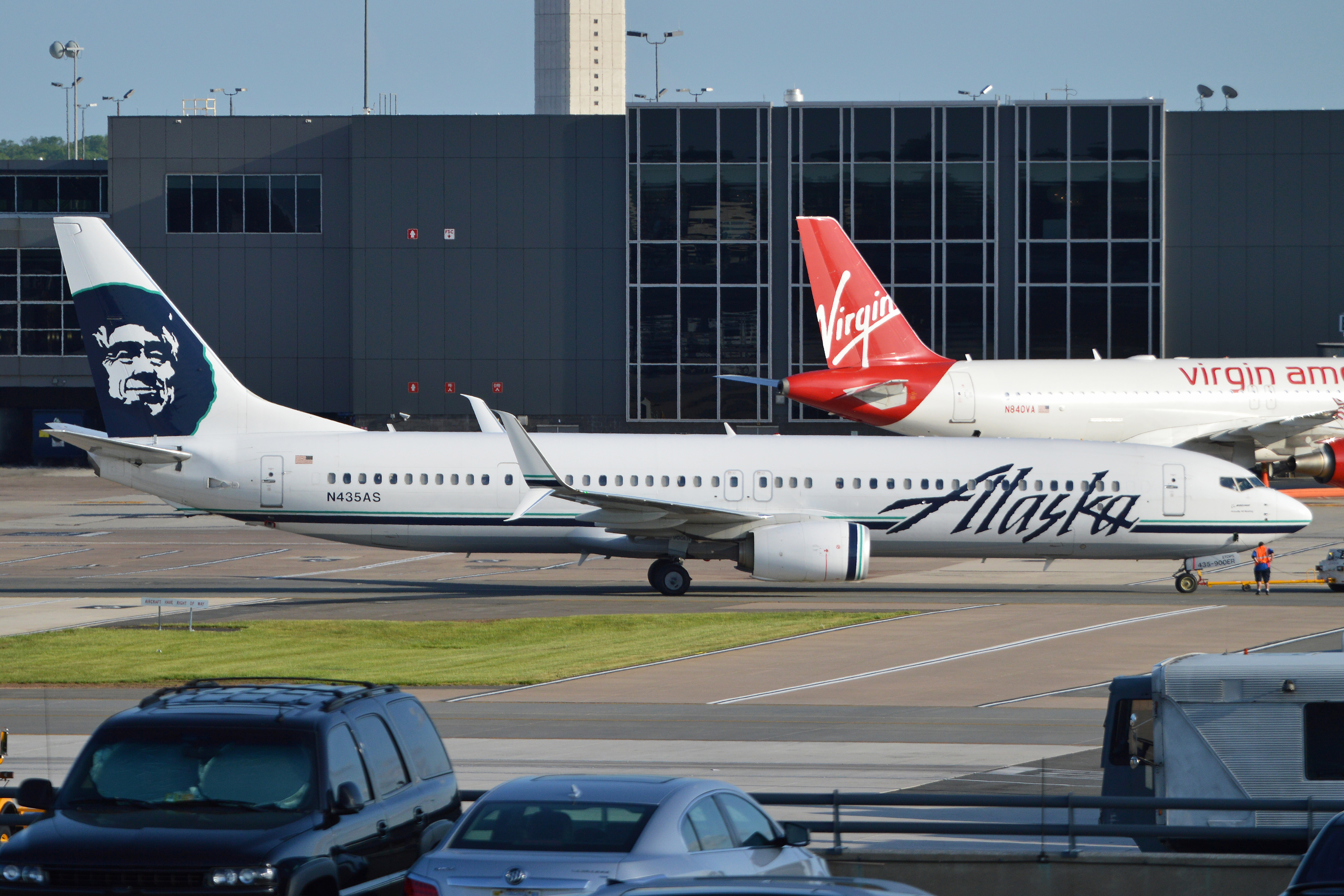 c/n 43292, l/n 4668. Built 2013. Washington Dulles Airport, Virginia, USA. 09-5-2015